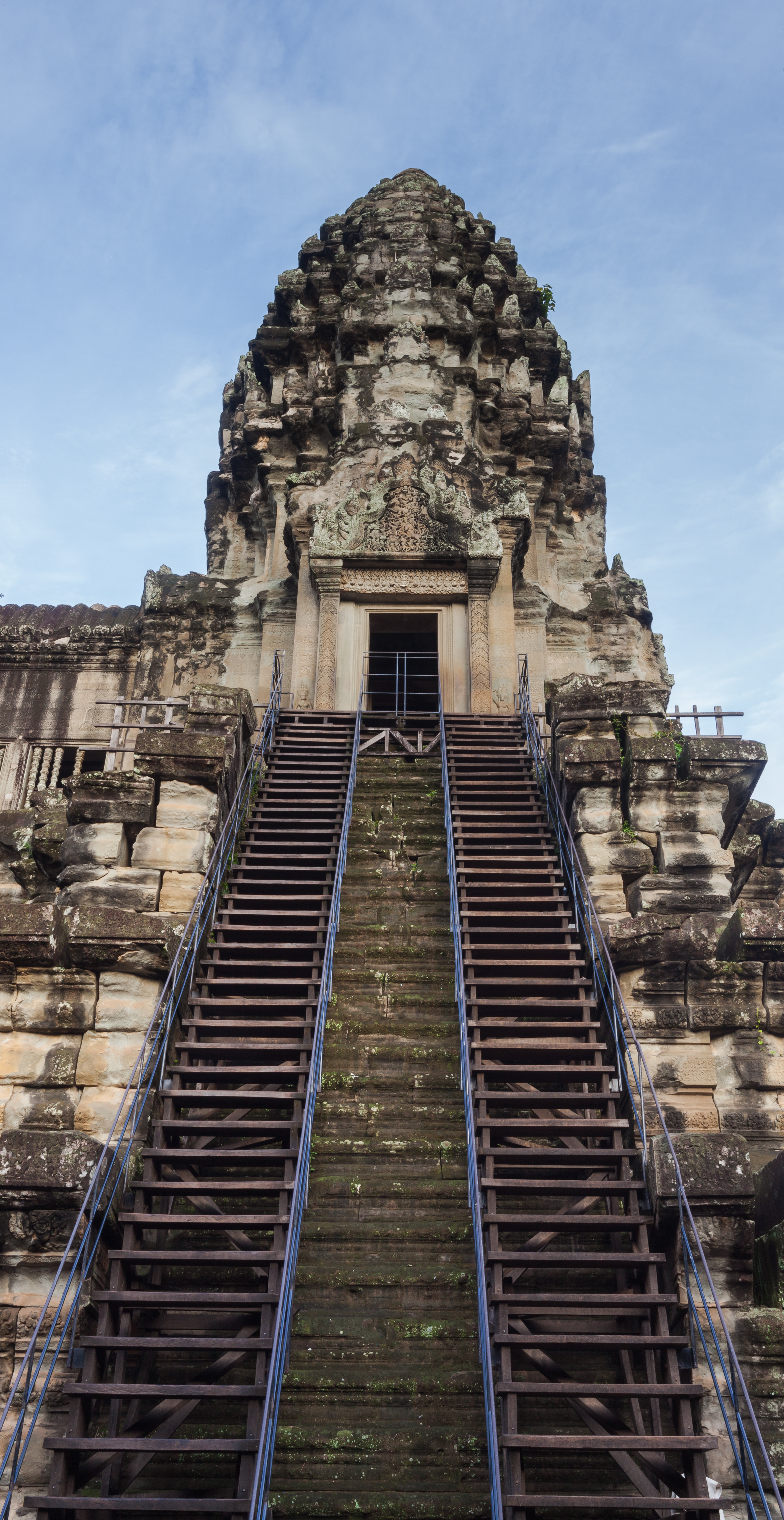 Angkor Wat, Cambodia